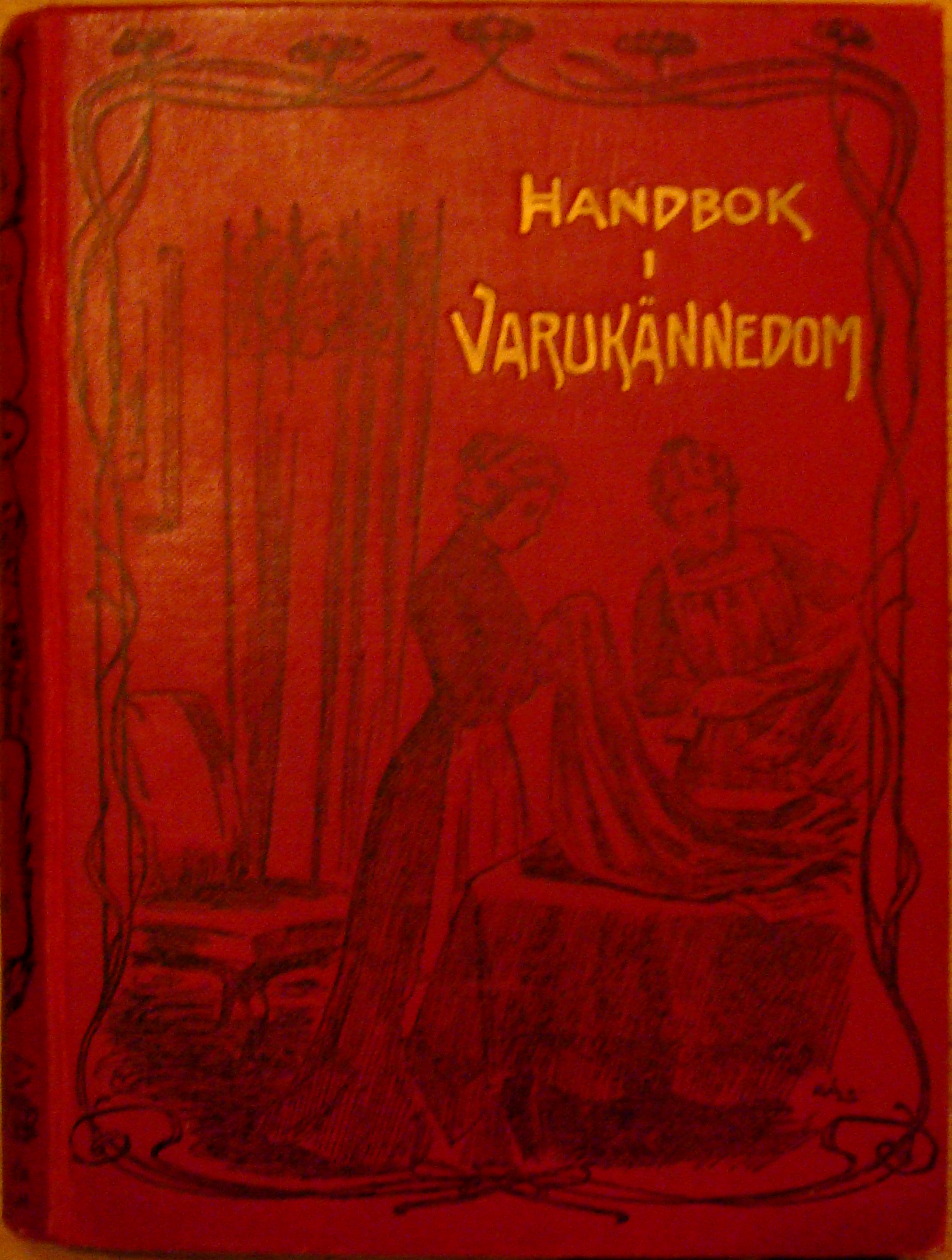 An old Swedish book written by Anders Roswall, published in 1909